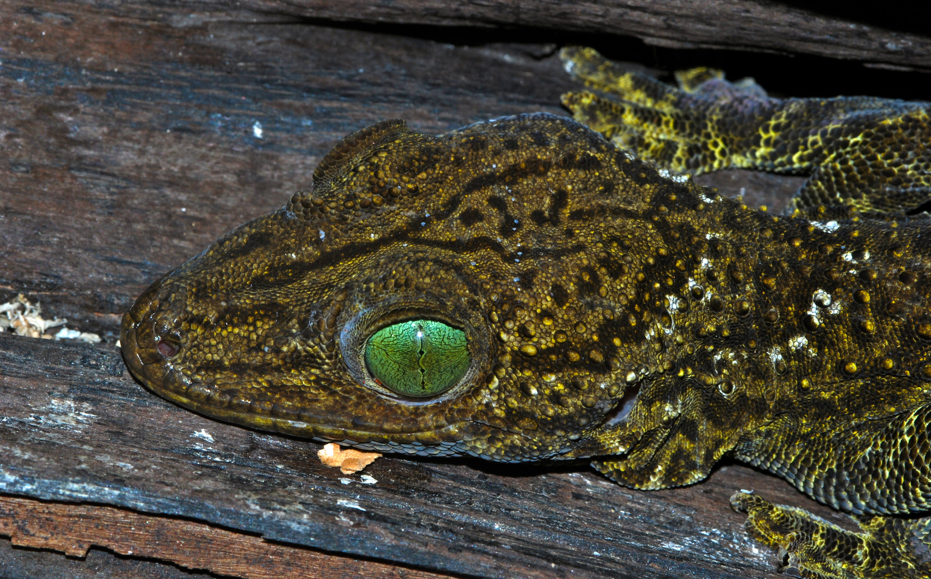 Butterfly Garden, Brinchang, Cameron Highlands, Pahang, MALAYSIA